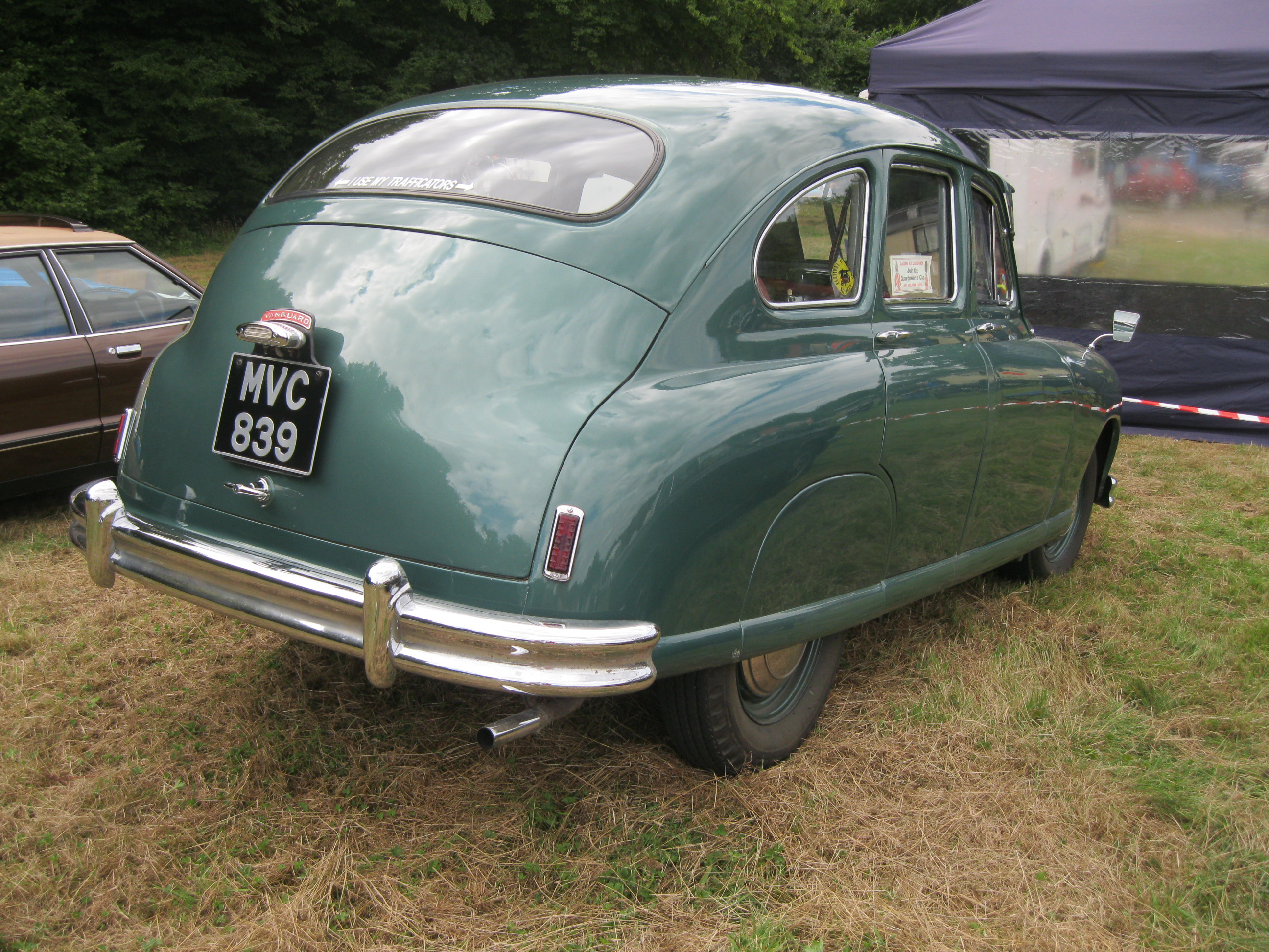 Spotted at the Bluebell Railway Historic Transport Weekend on 10.08.13